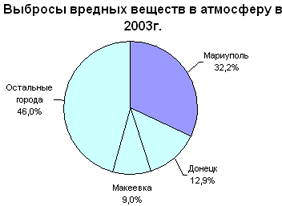 Table of Mariupol Pollution